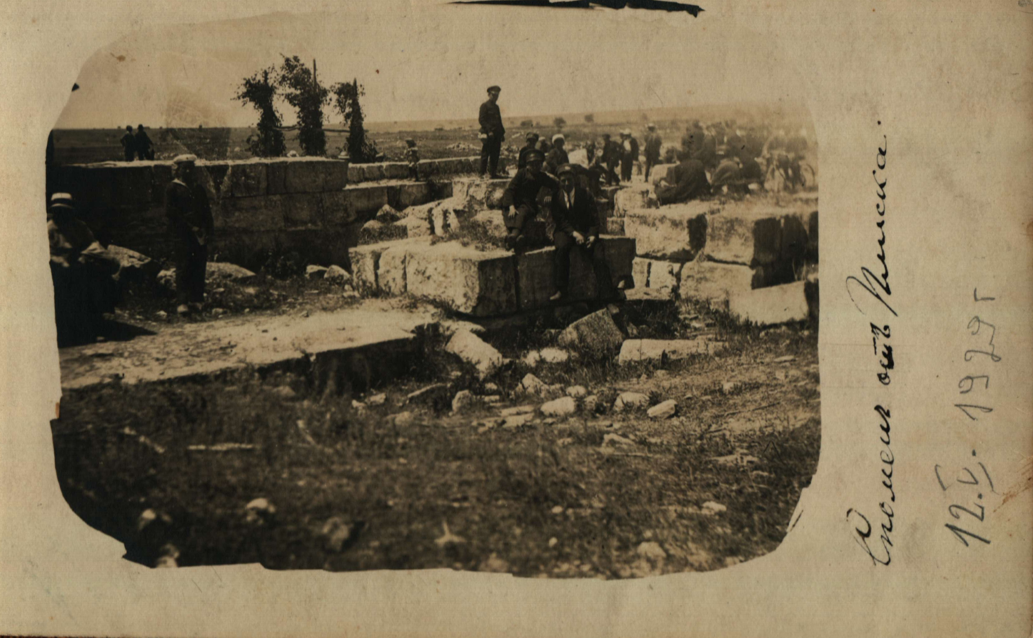 Pliska, Bulgaria